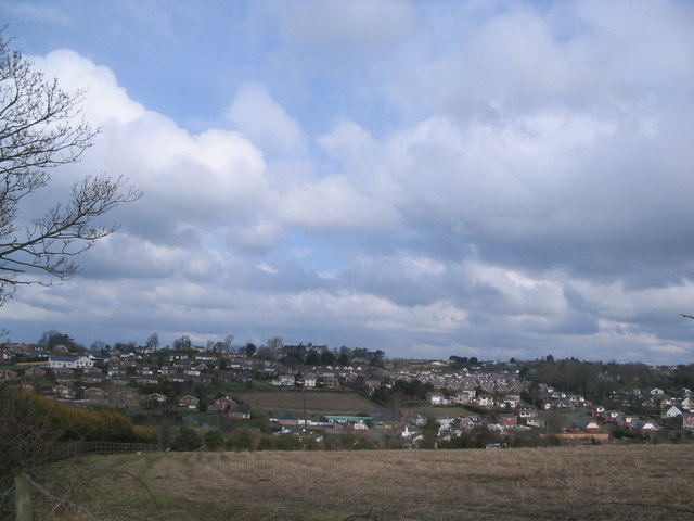 Looking West over Banbridge. Taken on the highest point of Banbridge.